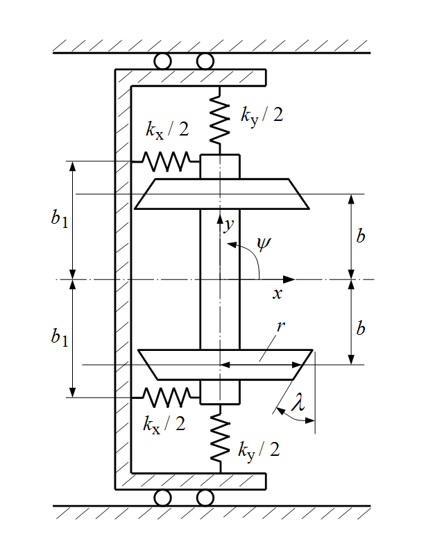 hunting calculation model for elastic supported wheel-set of rolling sotck